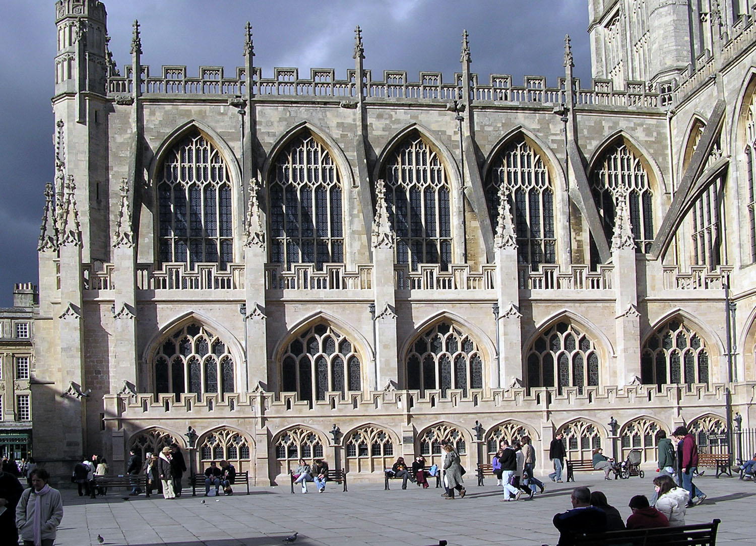 Six flying buttresses on Bath Abbey, Bath, England